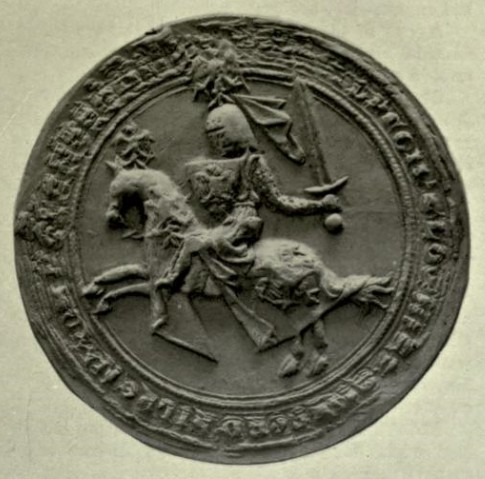 Seal of Ralph de Monthermer, 1st Baron Monthermer